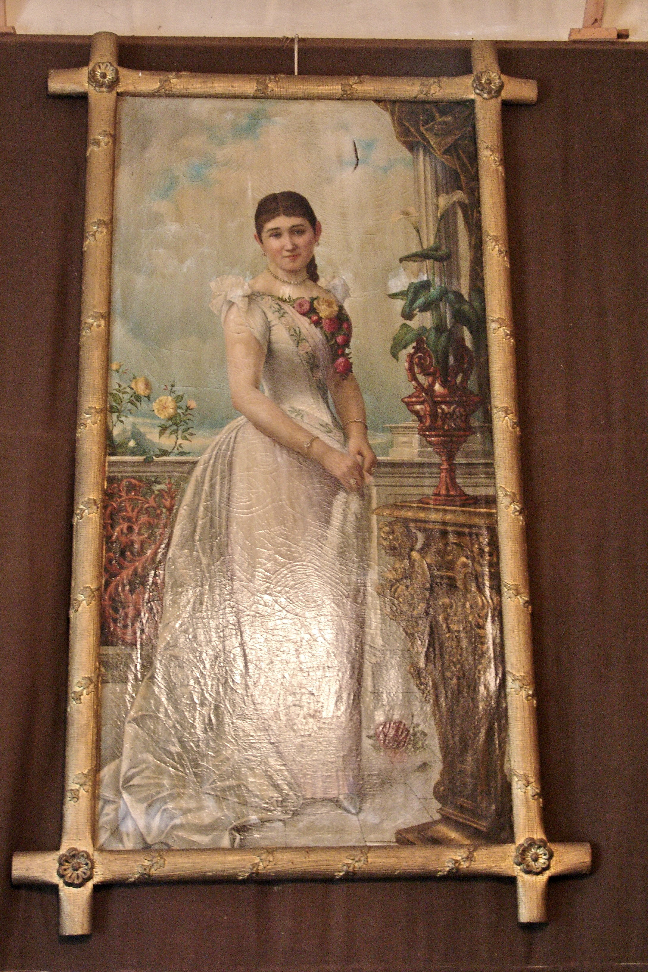 Sokolac castle near Novi Bečej - portrait of Lenka Dunđerski